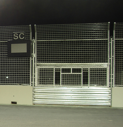 Singapore marashall posts with digital flag